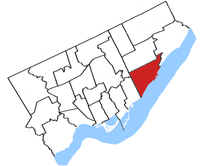 Map of the Scarborough Southwest electoral district showing its borders from 1996 to 2004. Created by SimonP.